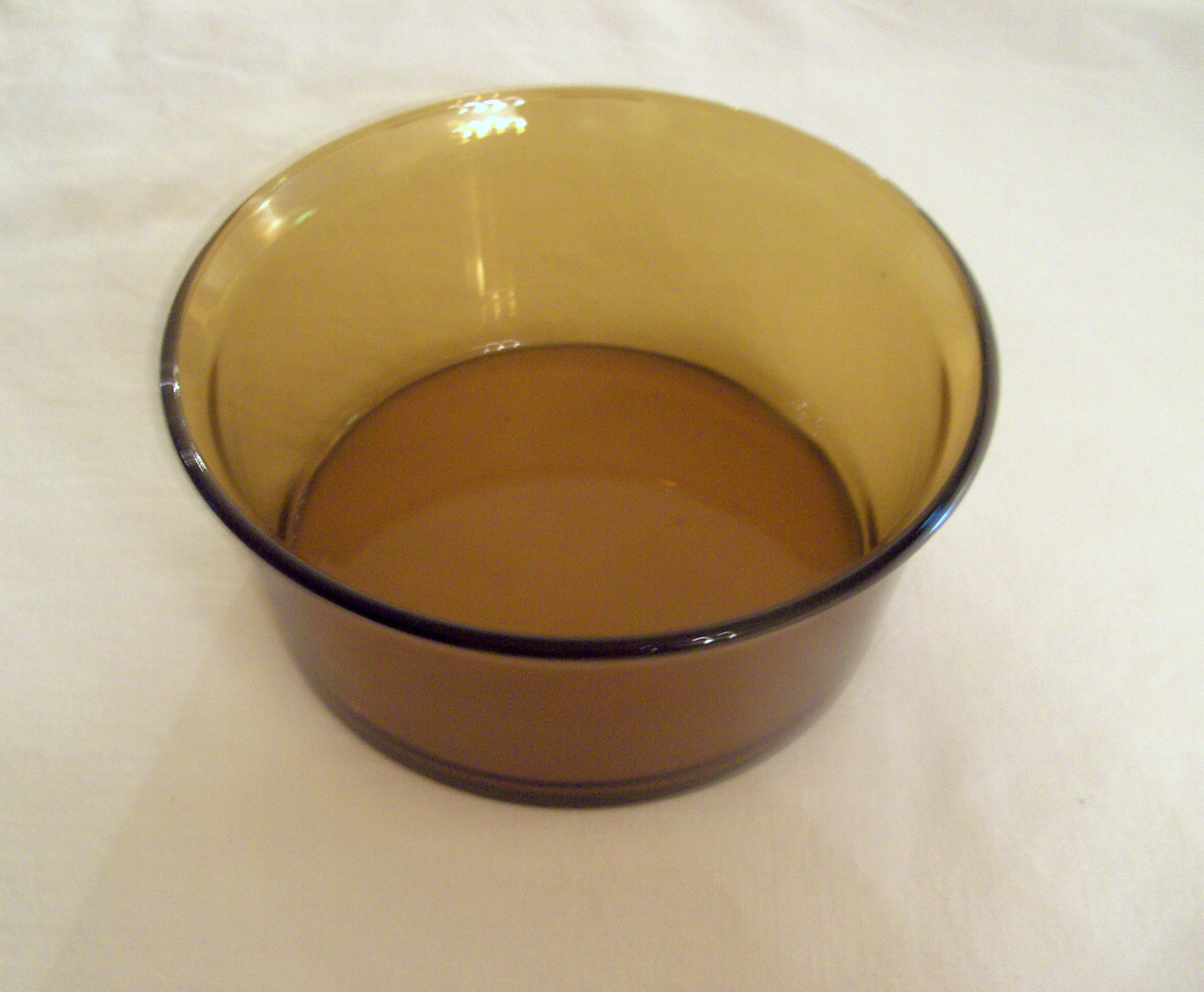 Arcopal bakeware